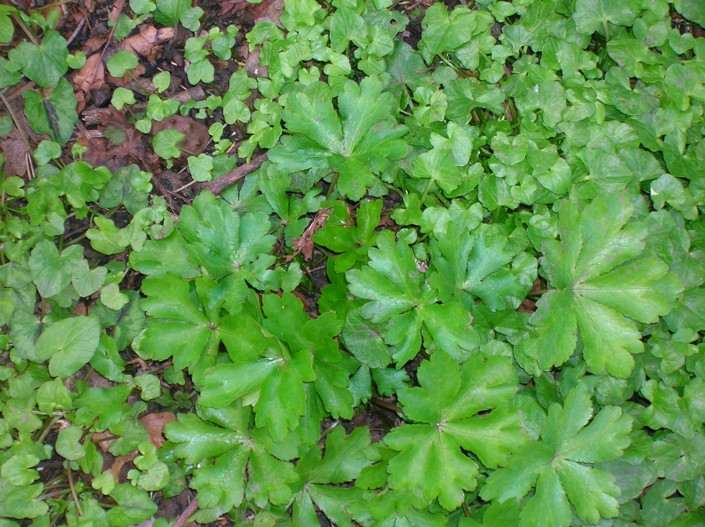 Sanicula europaea, Sanicle, at Spier's Old School Grounds, Beith, North Ayrshire, Scotland